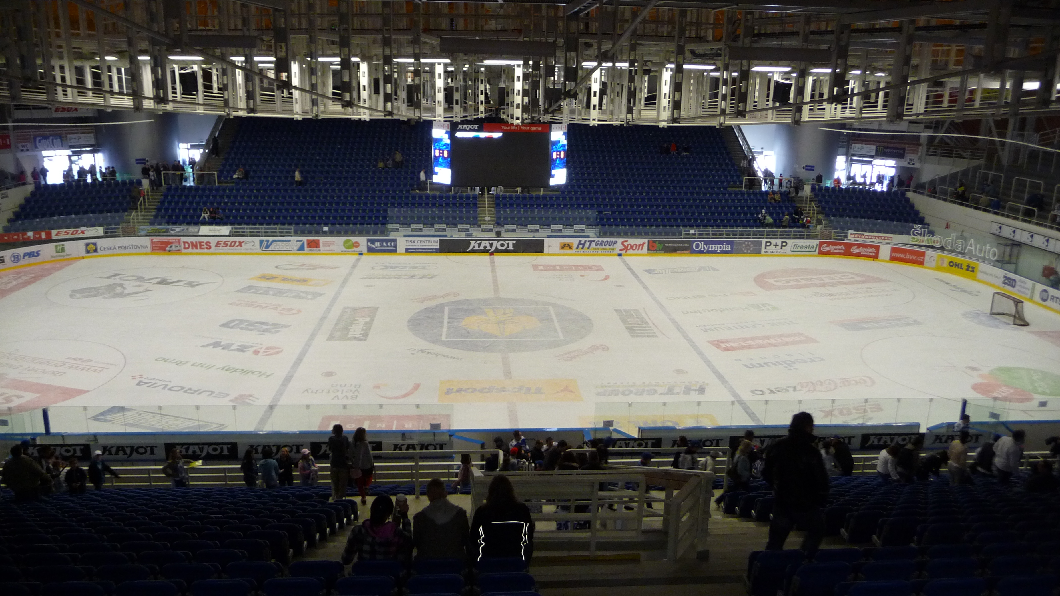 View from Skybox, tour of Rondo stadium facilities, Farewell the HC Kometa Brno with season 2010/2011 -10-5-3-2◄►+2+3+5+10